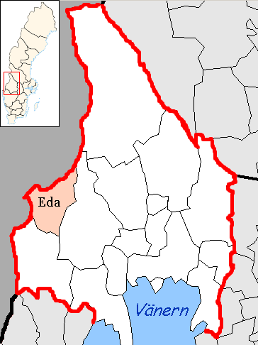 Eda Municipality in Värmland County Designd by me, based on Image:Värmland County.png